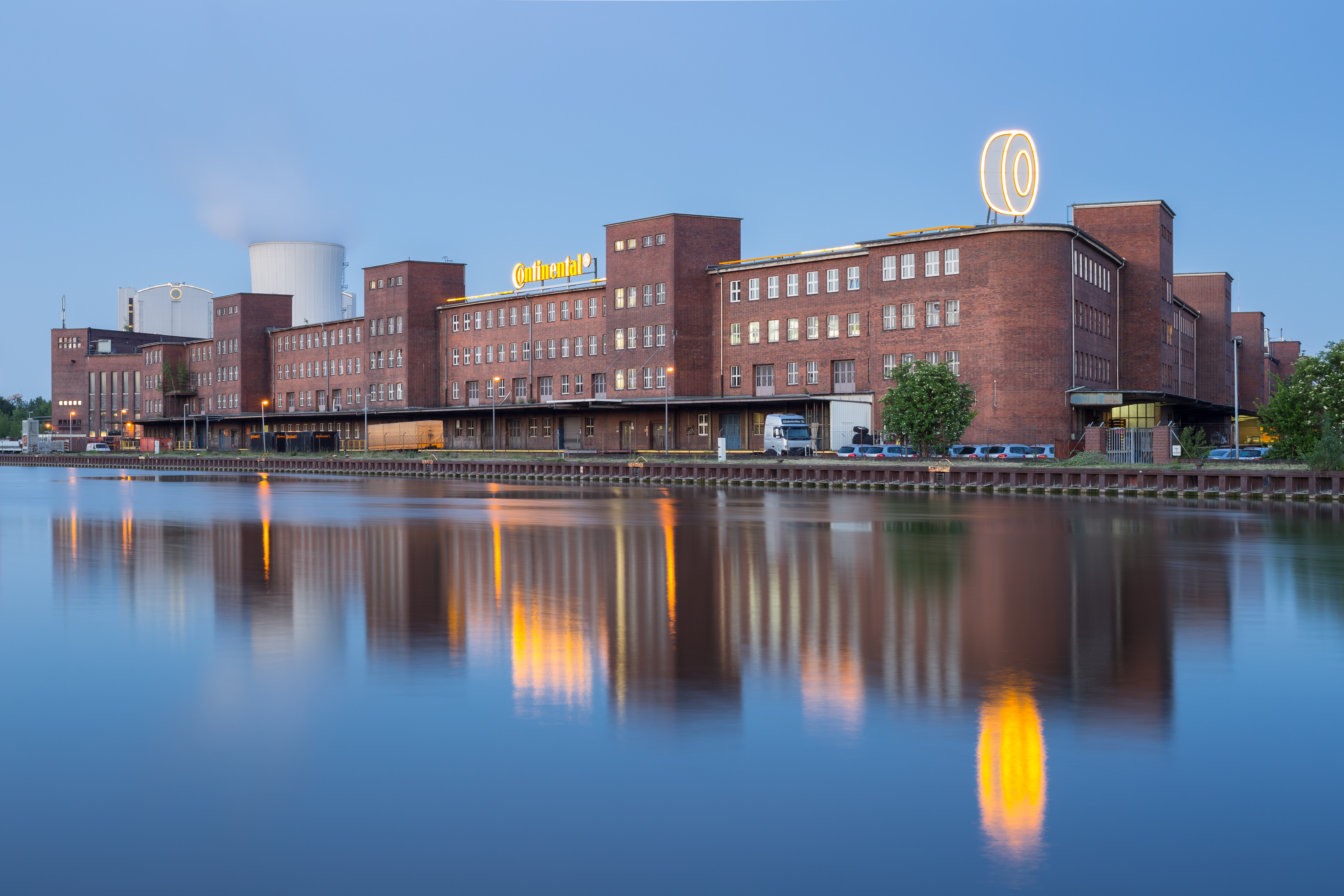 Tire factory of Continental AG located at Mittelland Canal in Stoecken quarter of Hannover, Germany.